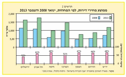 Average prices of dwellings